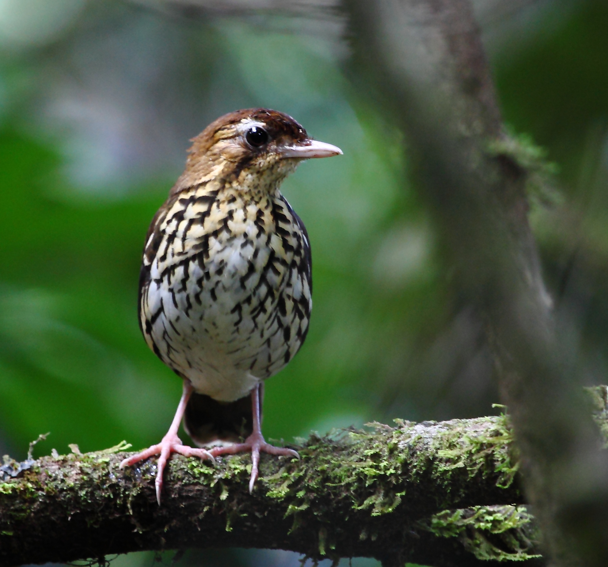 Short-tailed anttrush at Guaramiranga - CE - Brazil